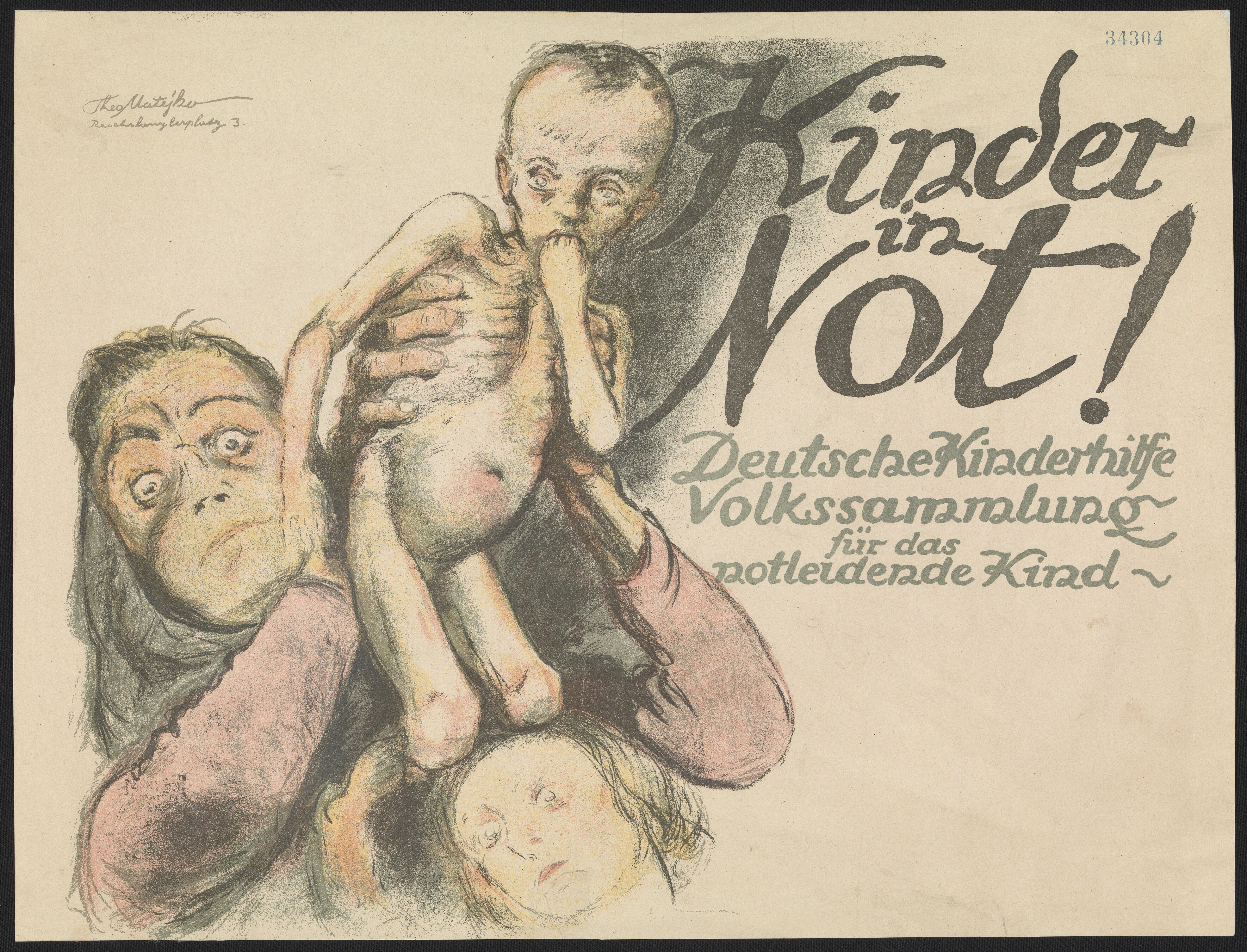 Kinder in Not [children in Need] whole: the image, title and text are integrated, with the image placed left and the title and accompanying text positioned upper right. All are set against a plain white background. image: a woman wearing a headscarf, faces the viewer holding up an emaciated child sucking on its hand. A young girl lower right also faces the viewer. text: Theo Matejko Reichskunglerplatz 3. Kinder in Not Deutsche Kinder Volkssammlung für das notleidende Kind [Children in Need. German Children’s Collection for Children in Need]